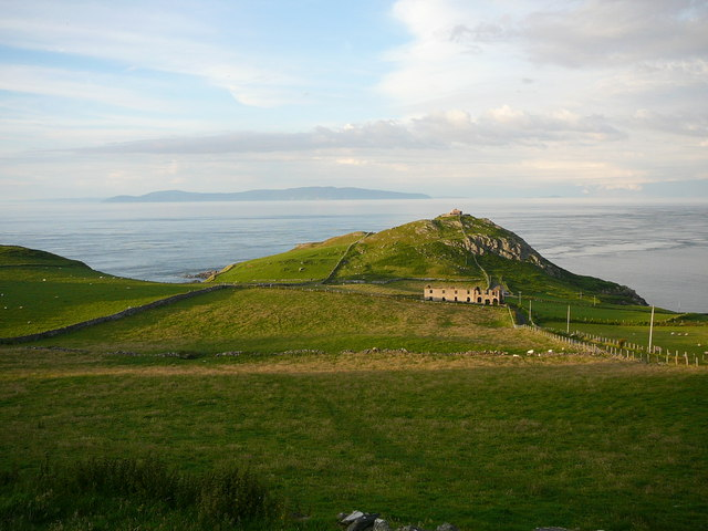 Torr Head and Mull of Kintyre in distance.